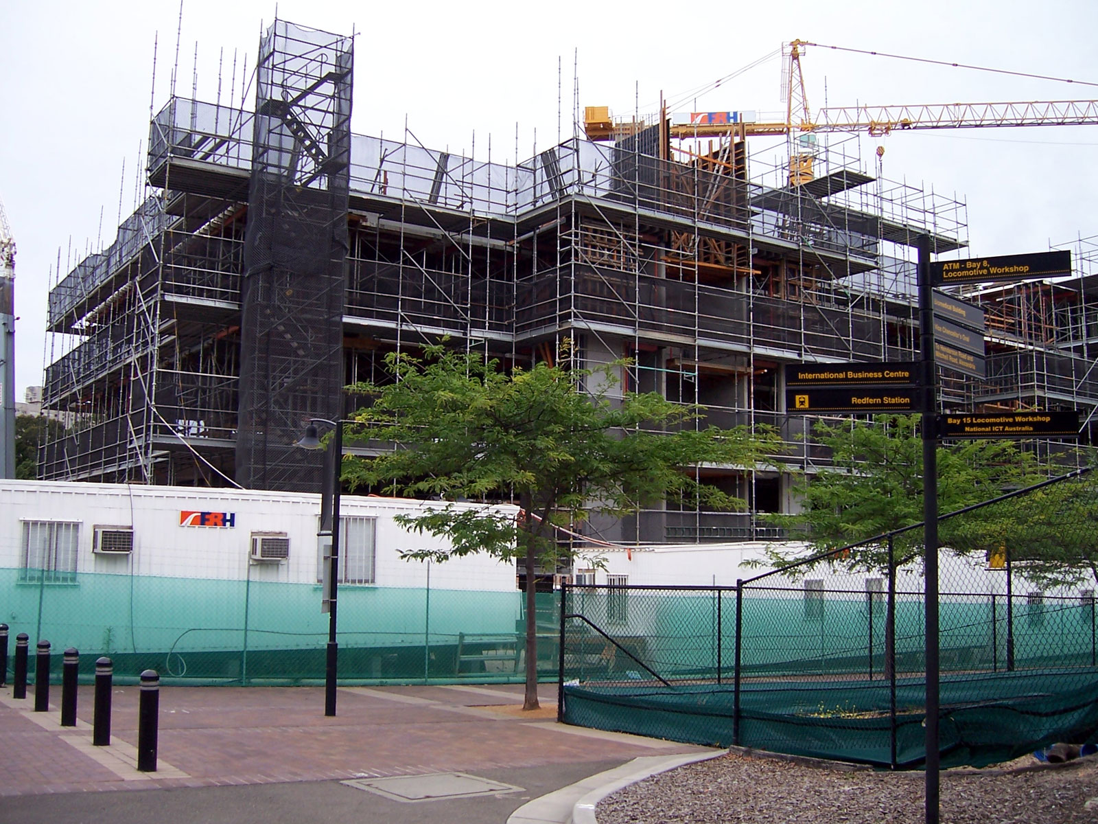 Construction of the new National ICT Australia building at the Australian Technology Park. Taken by Enoch Lau on 30 November 2006. As a courtesy, please let me know if you alter this image or this image description page. Original filename was 100_1705.JPG.